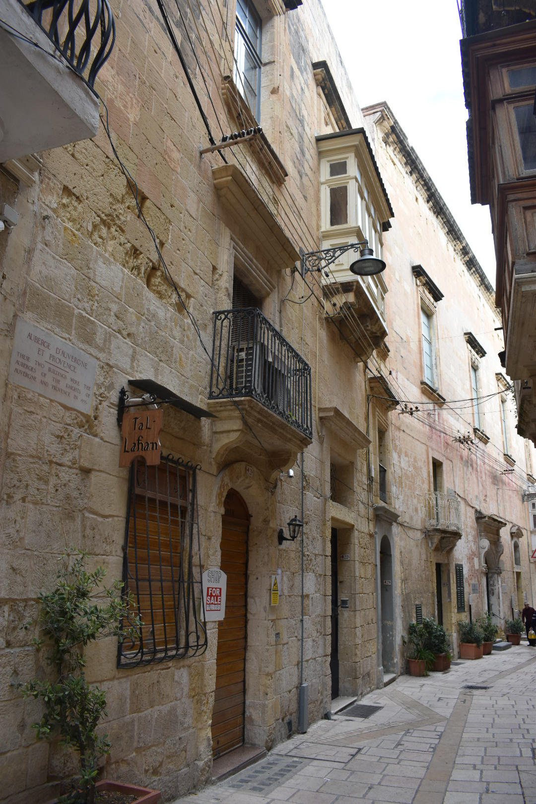 Auberge d' Auvergne et Provence This media is about Maltese cultural property with inventory number 01162.